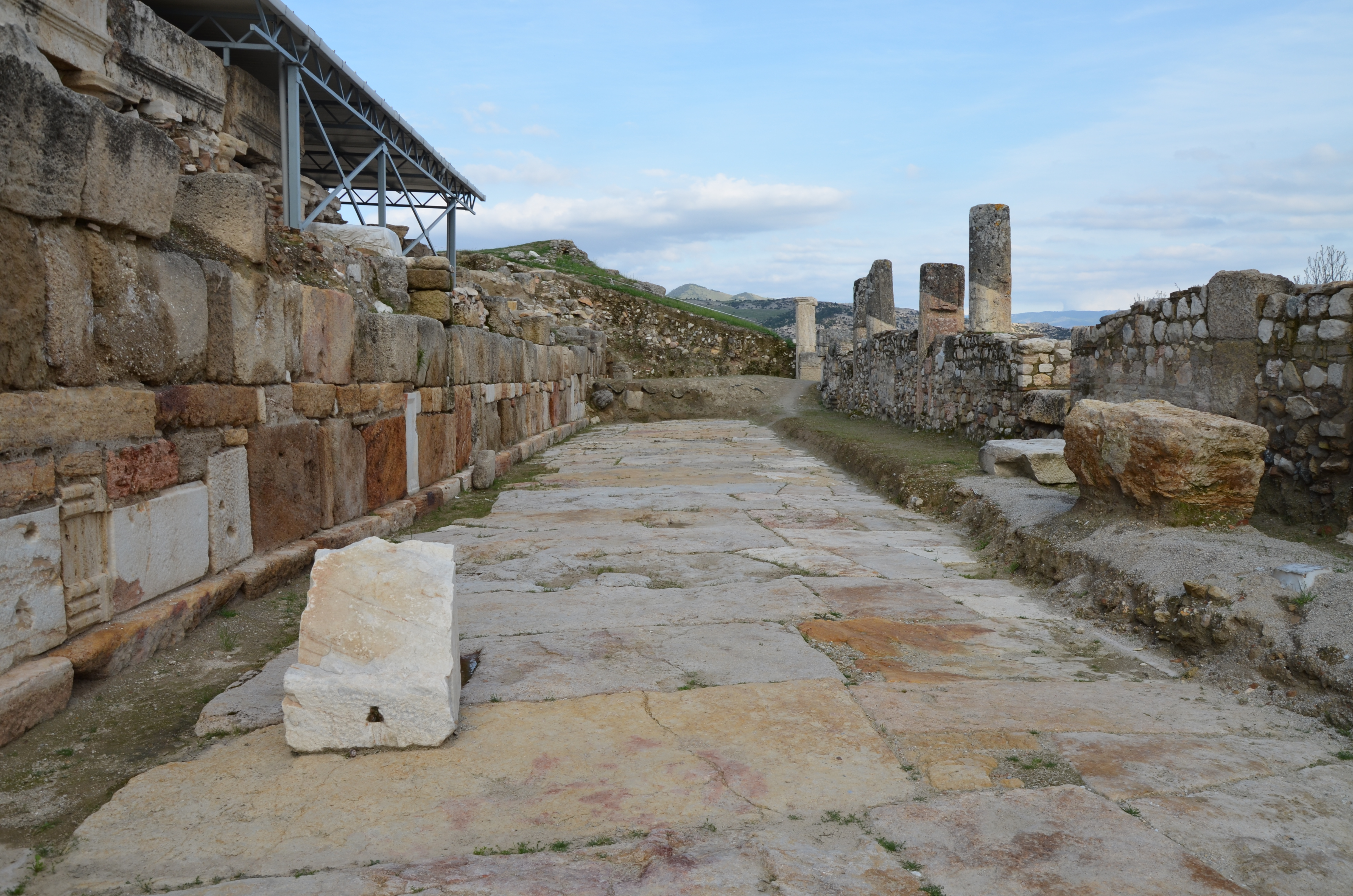 Tripolis on the Meander, Lydia, Turkey